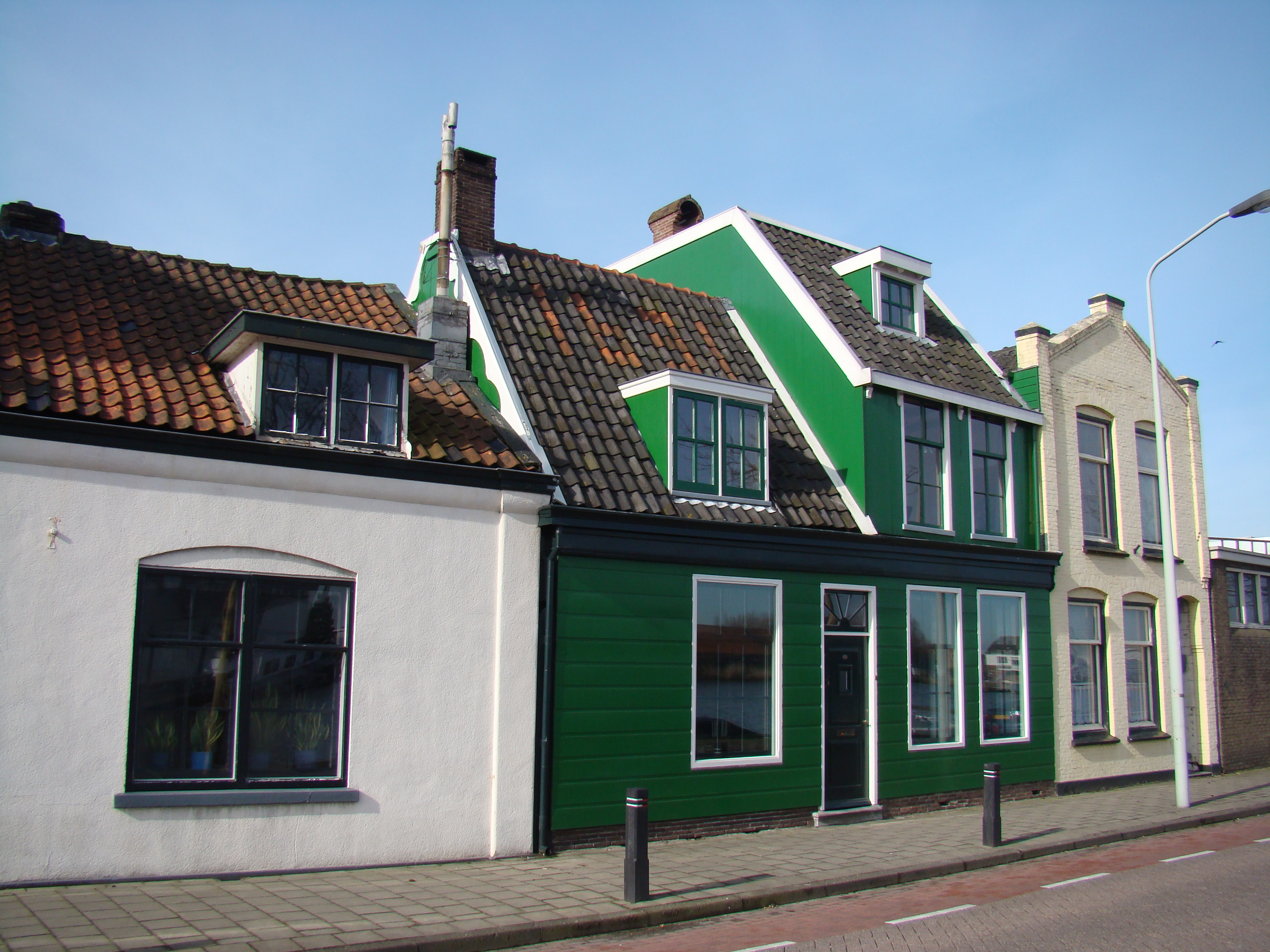 Impressions of Wormerveer, Netherlands